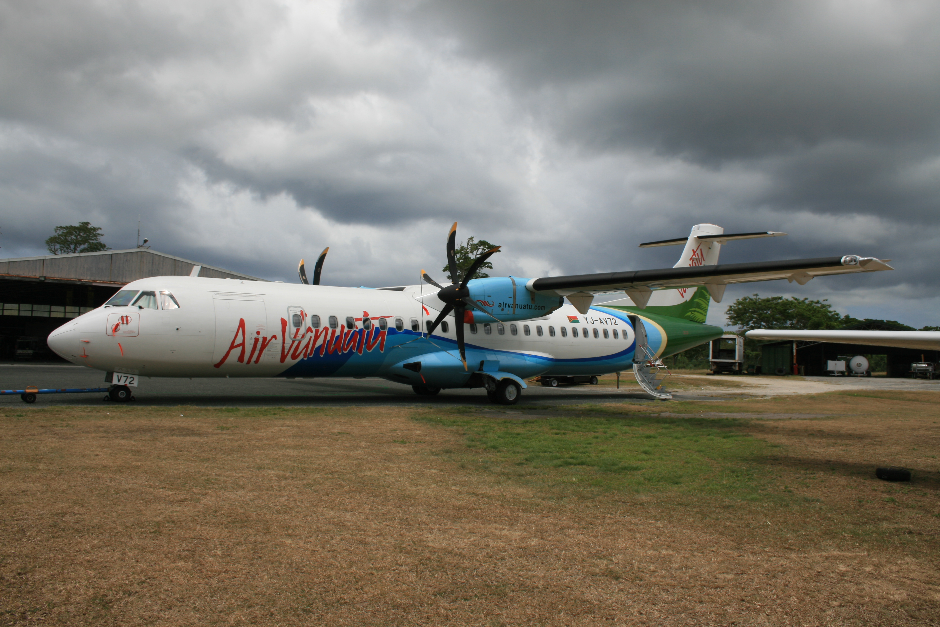 Air Vanuatu's brand-new ATR 72-500 parked at Port Vila's Bauerfield airport a few days before its inaugural flight. Digital photo of YJ-AV72 taken by YSSYguy on 3 November 2009 and uploaded for use in the Air Vanuatu article.